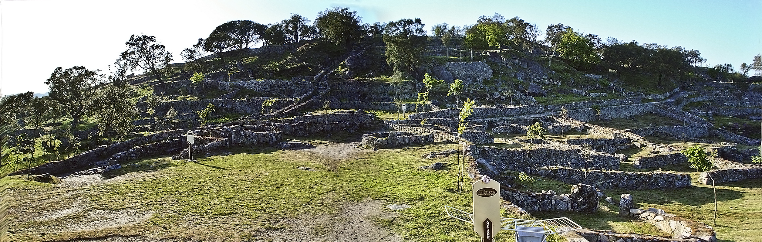 Panoramic of Hill fort of Briteiros.